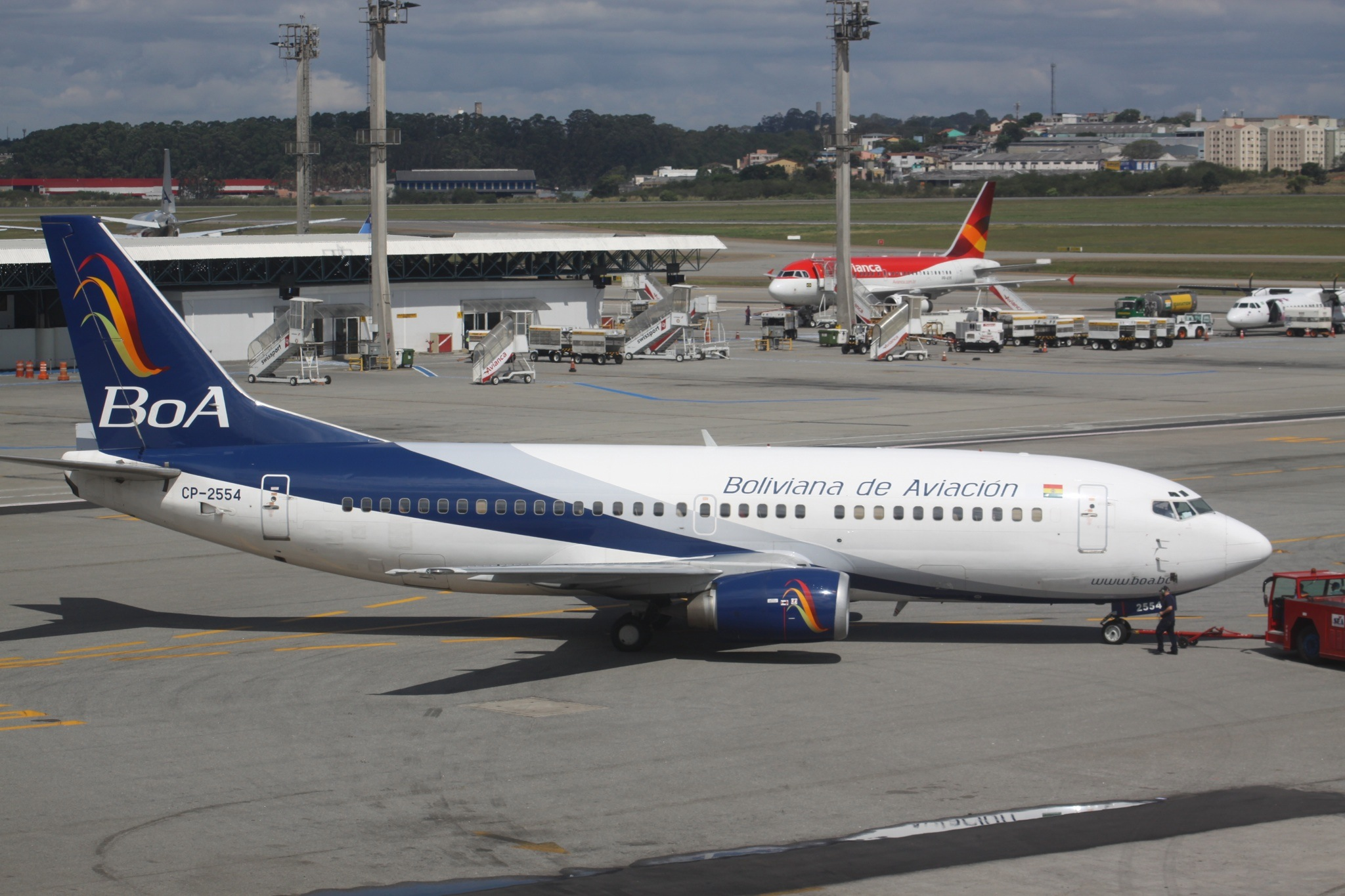 At Sao Paulo Guarulhos